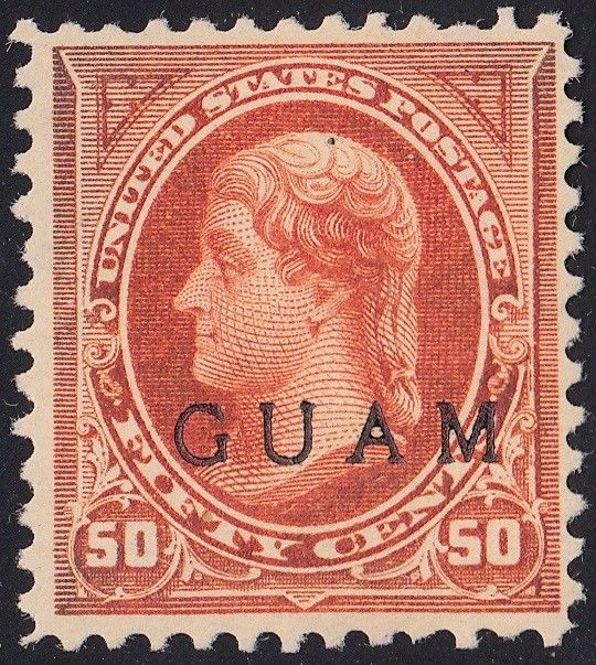 1899 United States 50 cent red-orange postage stamp depicting Thomas Jefferson, overlaid with the word "GUAM" for use in that territory